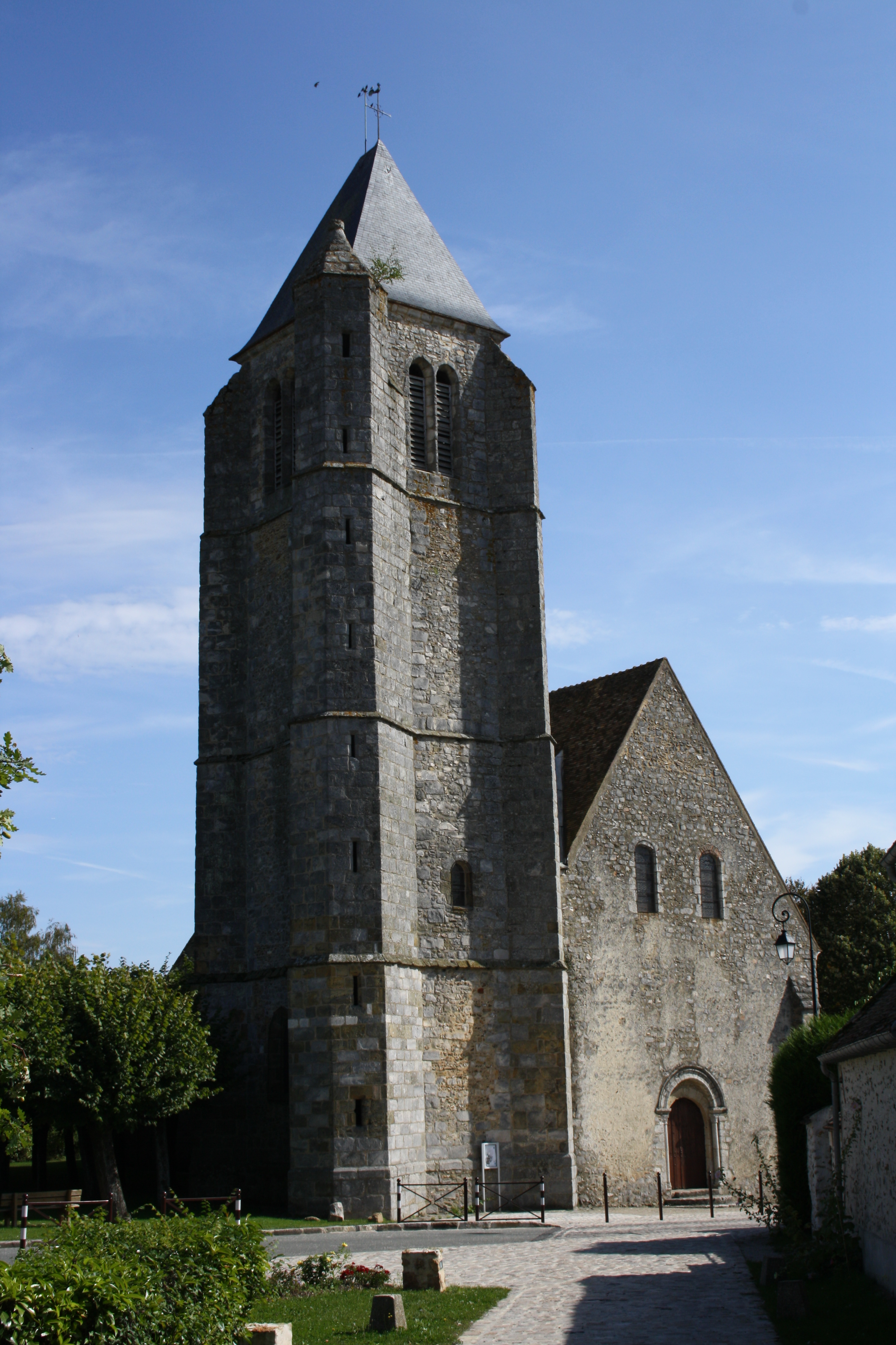 Saint-Pierre church in Longvilliers, France.